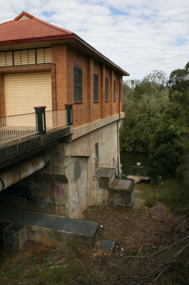 North Pine Pumping Station (2007), another angle